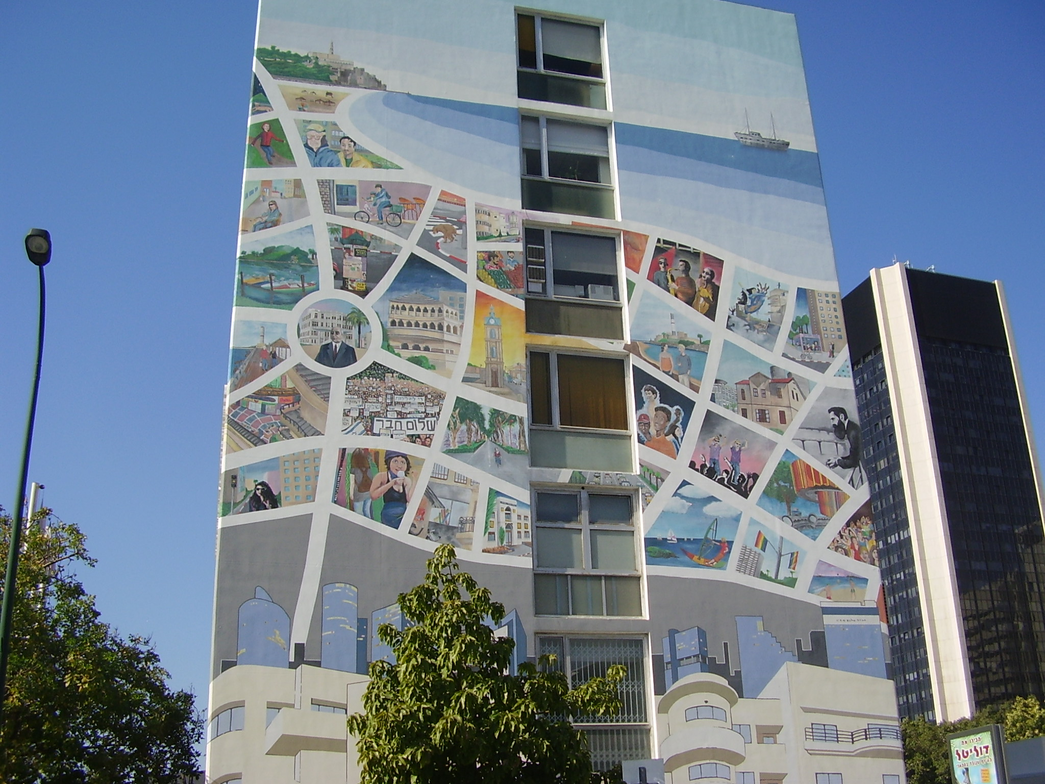 Mural on The World Zionist Organization building in Tel Aviv